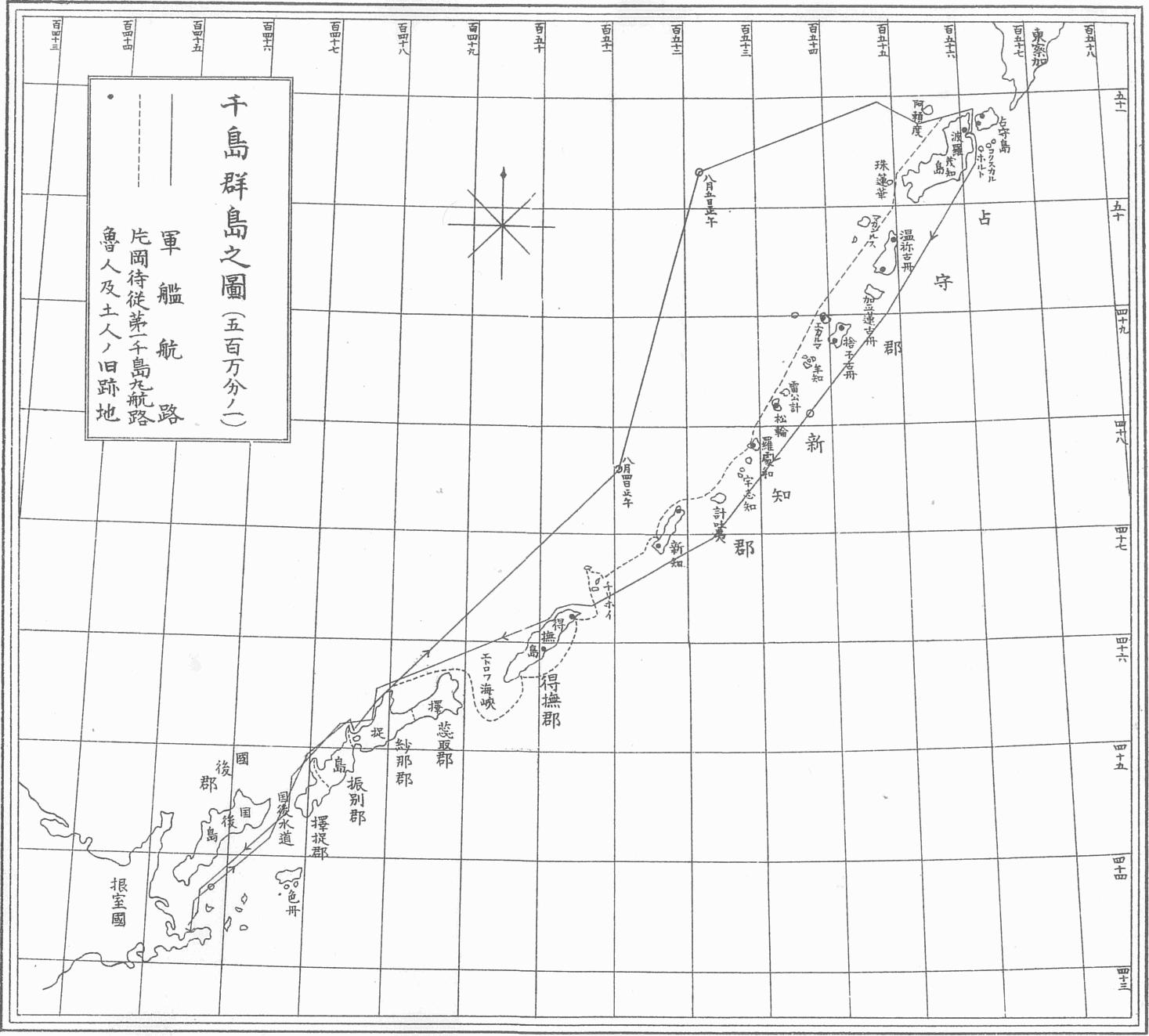 Map of Chishima